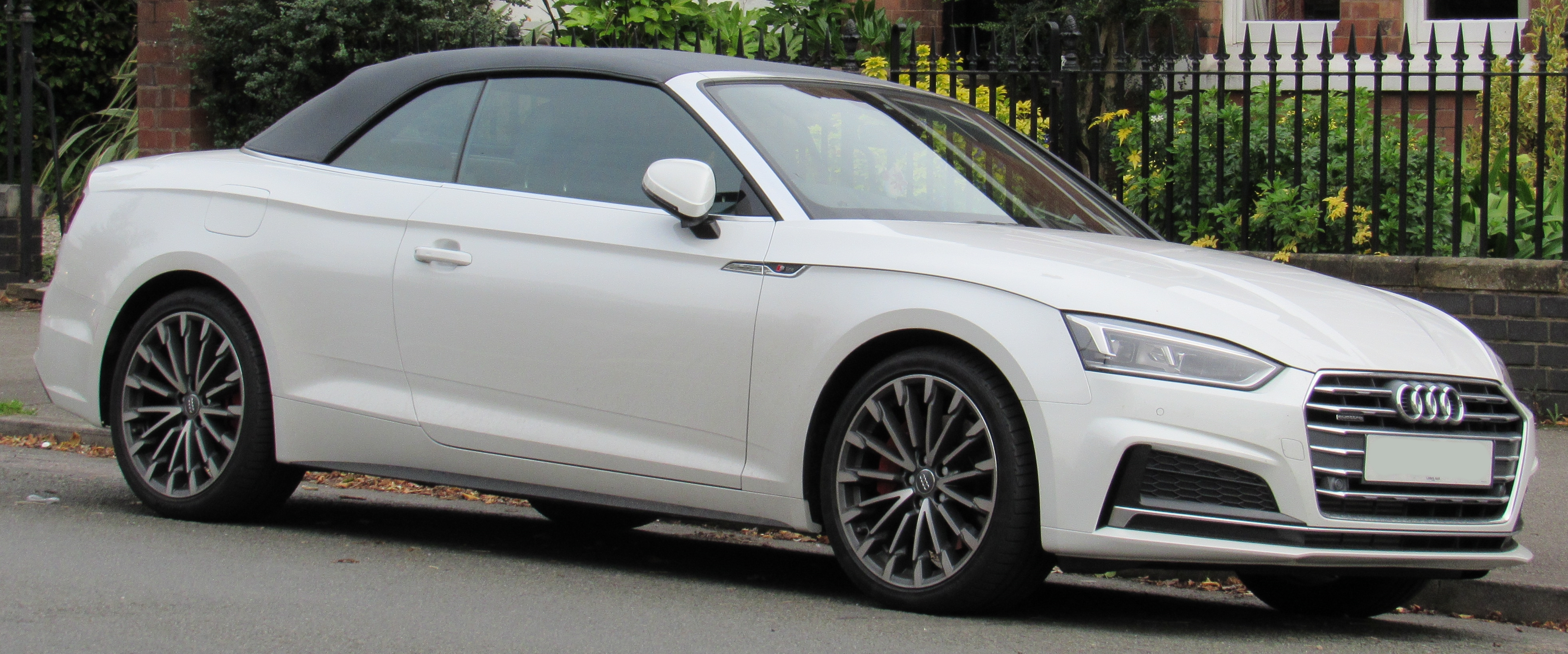 2017 Audi A5 S Line Quattro 2.0 Front Taken in Leamington Spa